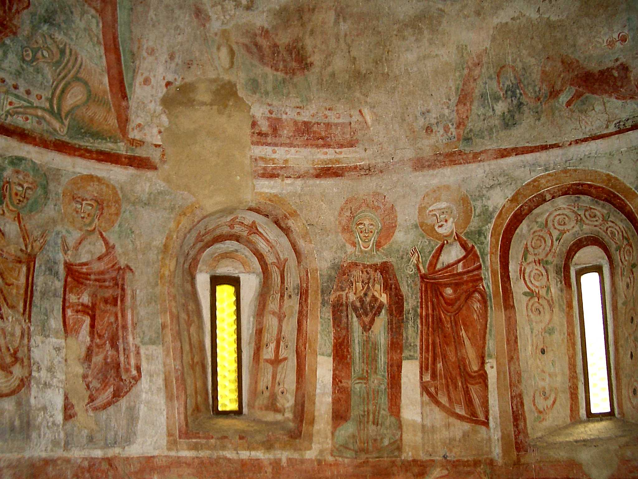 Briga Novarese, Chiesa di San Tommaso, frescoes of the first half of XI century